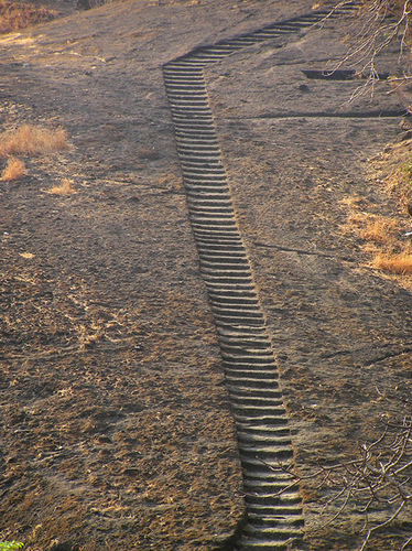 Rock cut stairs leading to Kanheri.